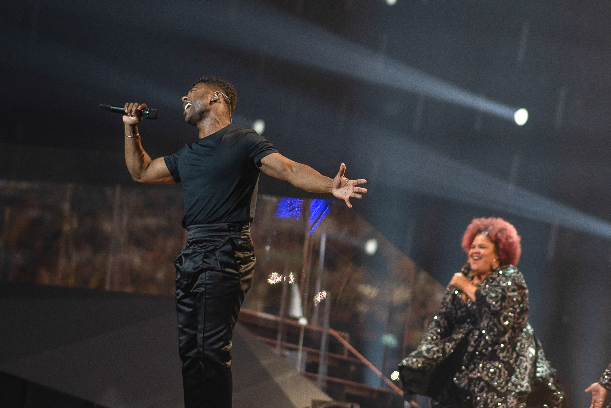 John Lundvik representing Sweden with the song "Too Late for Love" during a rehearsal before the grand final of the Eurovision Song Contest 2019 in Tel-Aviv.